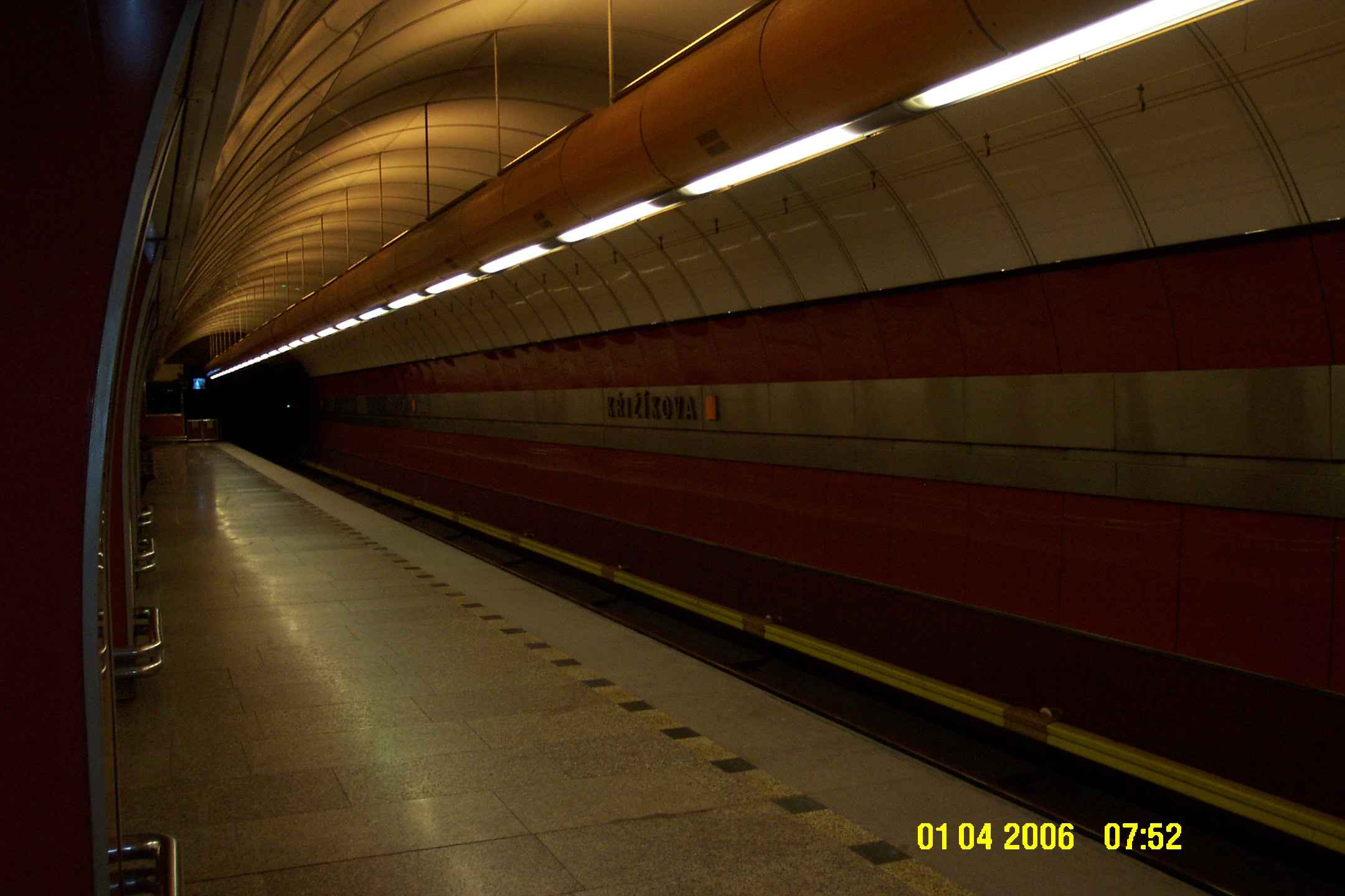 Metro station Křižíkova